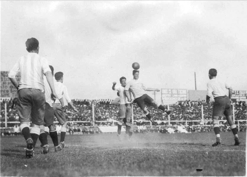 The match between Argentina and Uruguay national football teams played in the Estadio Nacional of Lima, Perú, during the Copa América held in that country. Argentina won by 3-2.